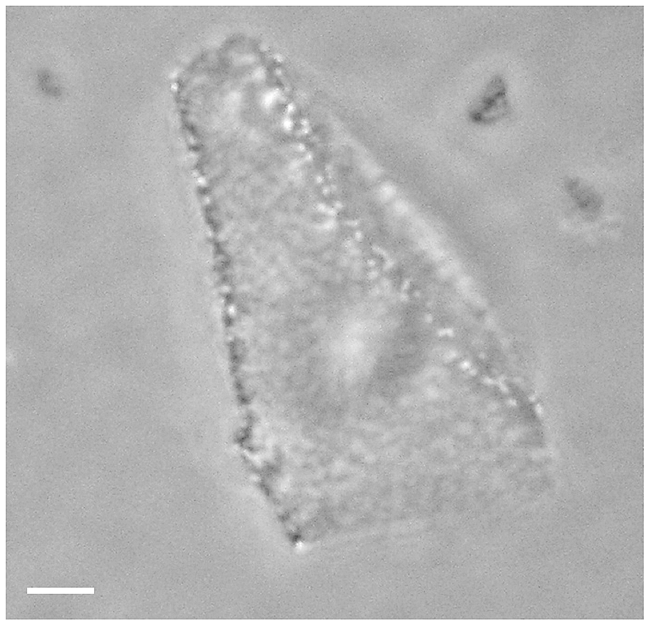 Optical phase-contrast microscopy image of a Haloquadratum walsbyi square cell. The numerous light dots represent gas vesicles. Overall size is 10×10 µm. Scale bar 1 µm.